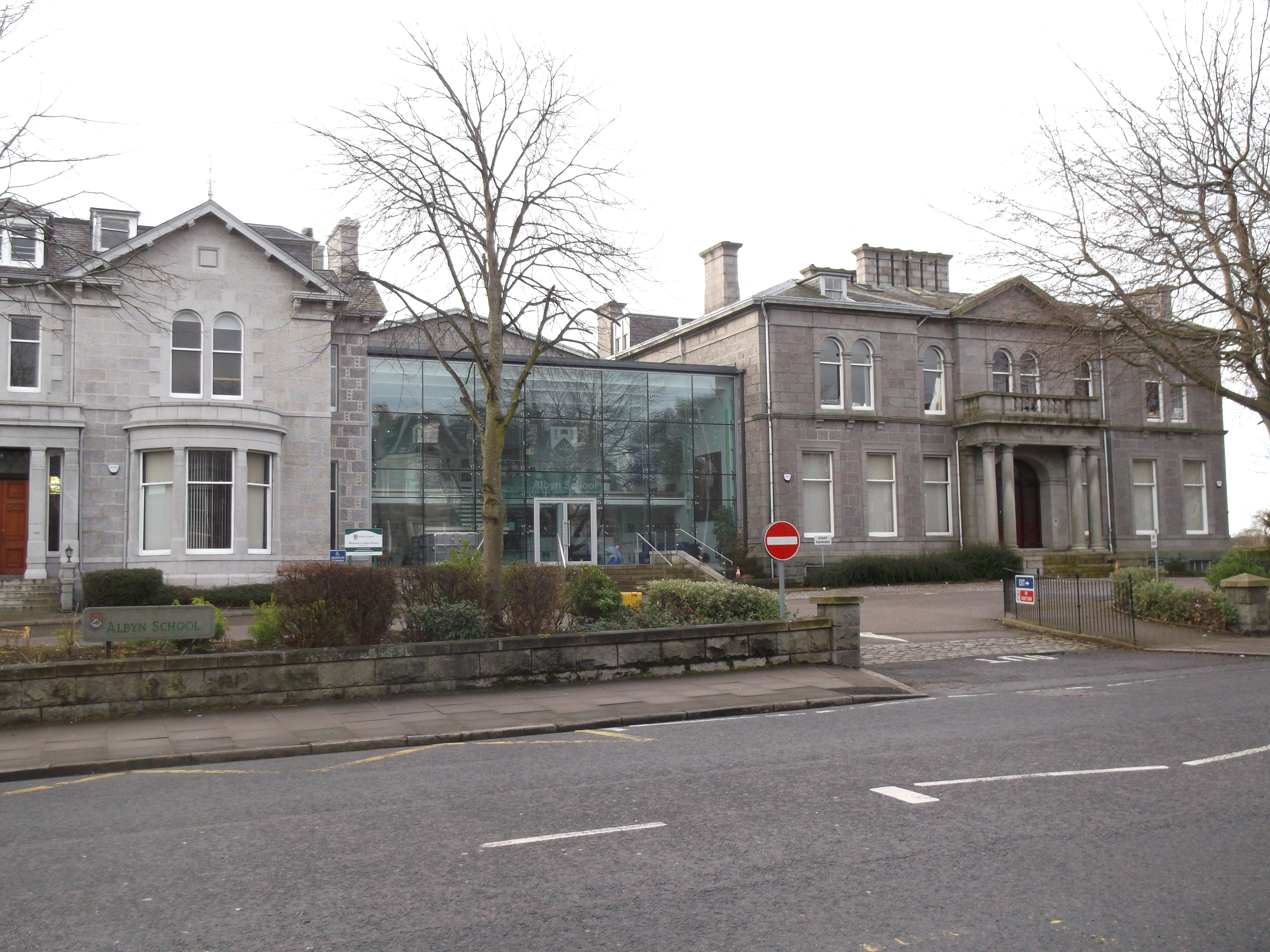 Albyn School, 17-23 Queen's Road, Aberdeen